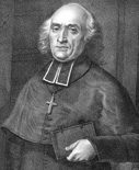 Denis-Antoine-Luc Frayssinous (9 May 1765 - 12 Dec 1841), French bishop & politician Denis-Antoine-Luc Frayssinous 9.5.1765-12.12.1841 piispa ja poliitikko